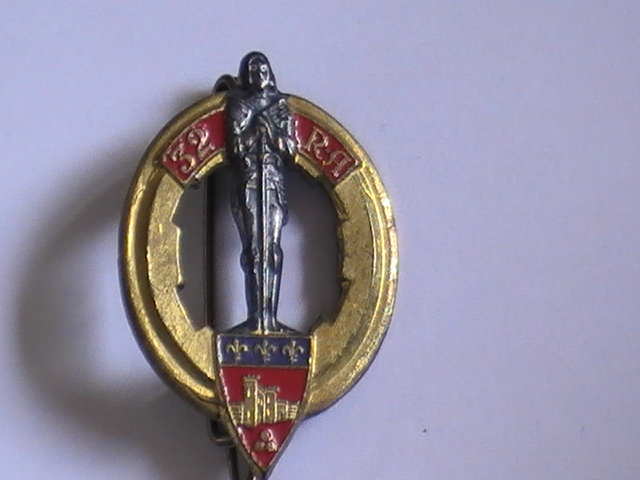 badge called "virgin" of the 32nd Field Artillery Regiment based in Oberhoffen-sur-Moder in 1980.